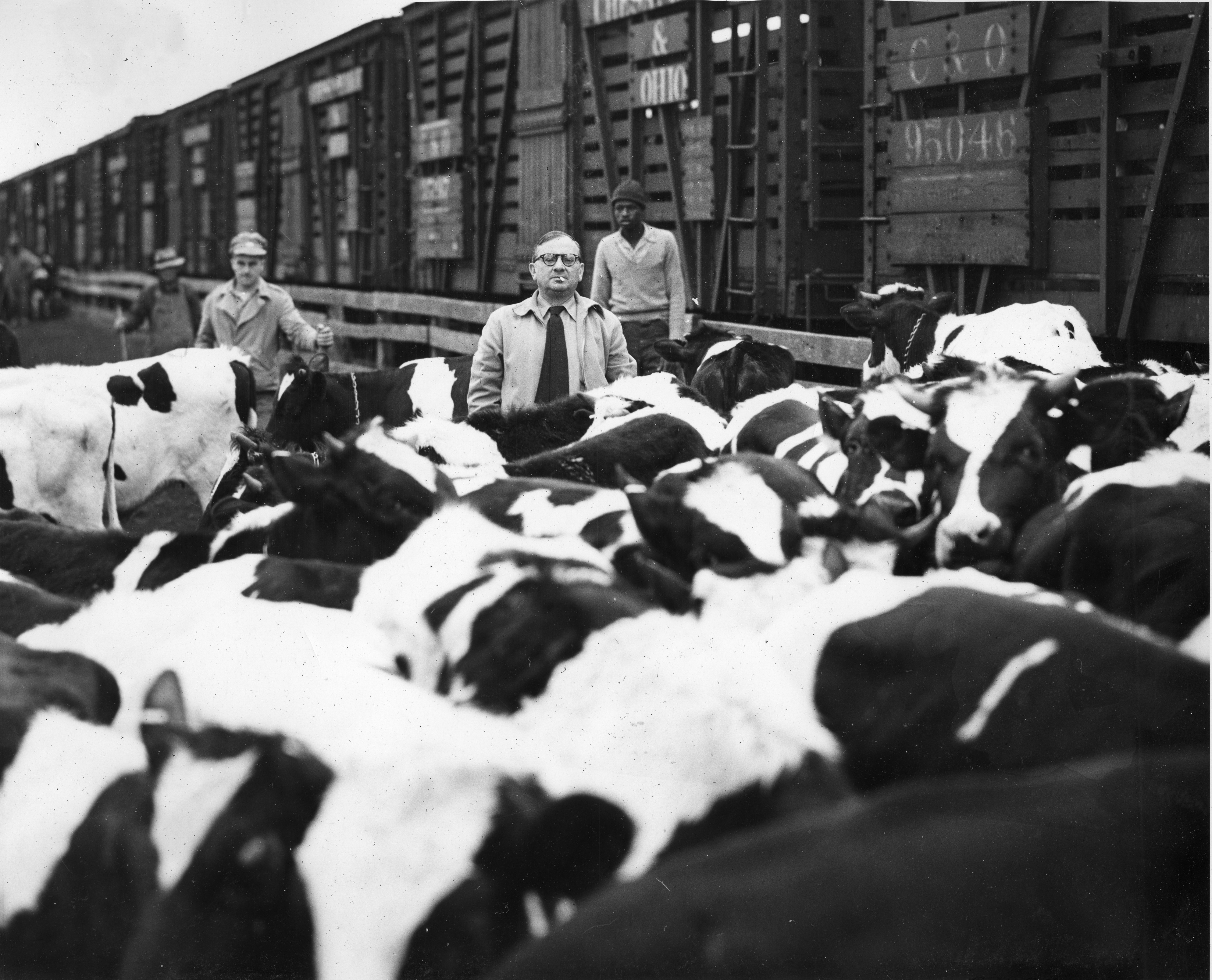 Shmaragd - import cattle